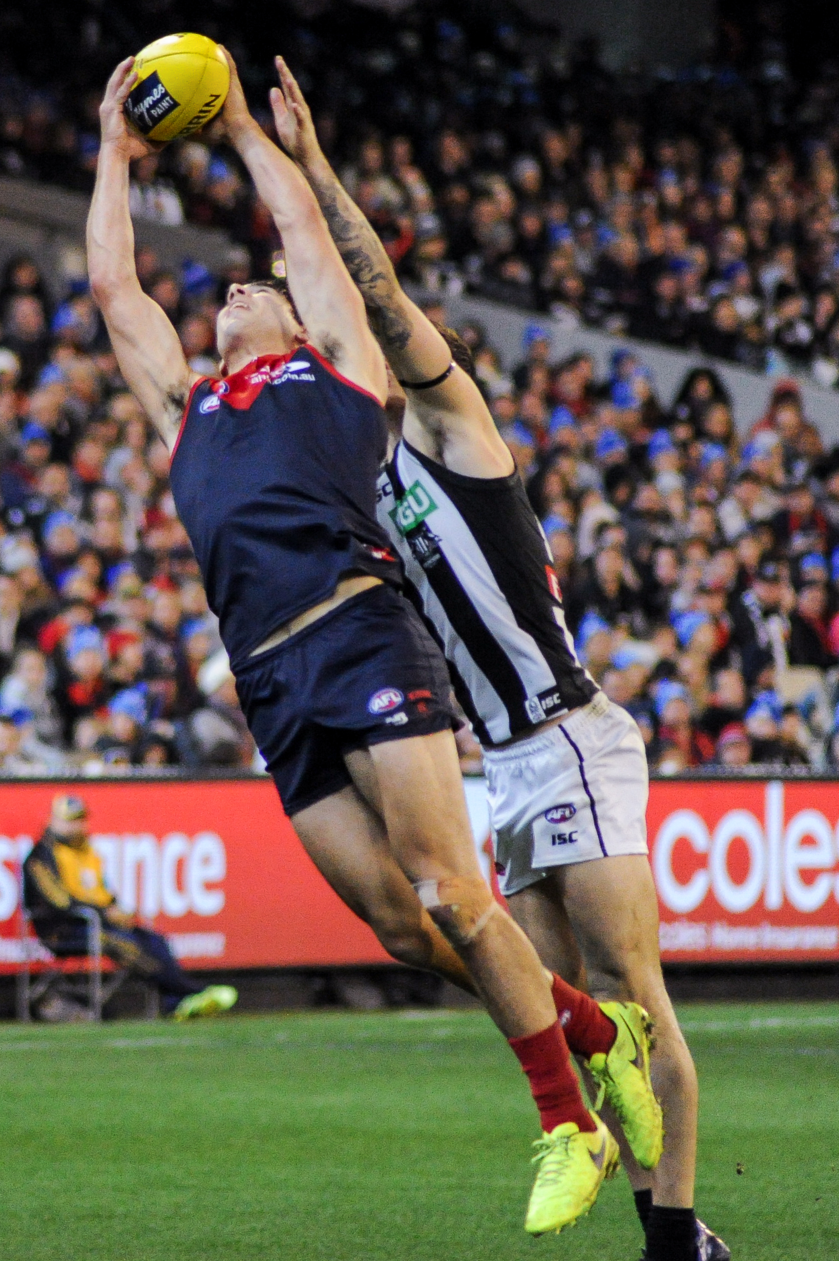 Christian Petracca marking over Jack Crisp during the AFL round twelve match between Melbourne and Collingwood on 12 June 2017 at the Melbourne Cricket Ground in Melbourne, Victoria.